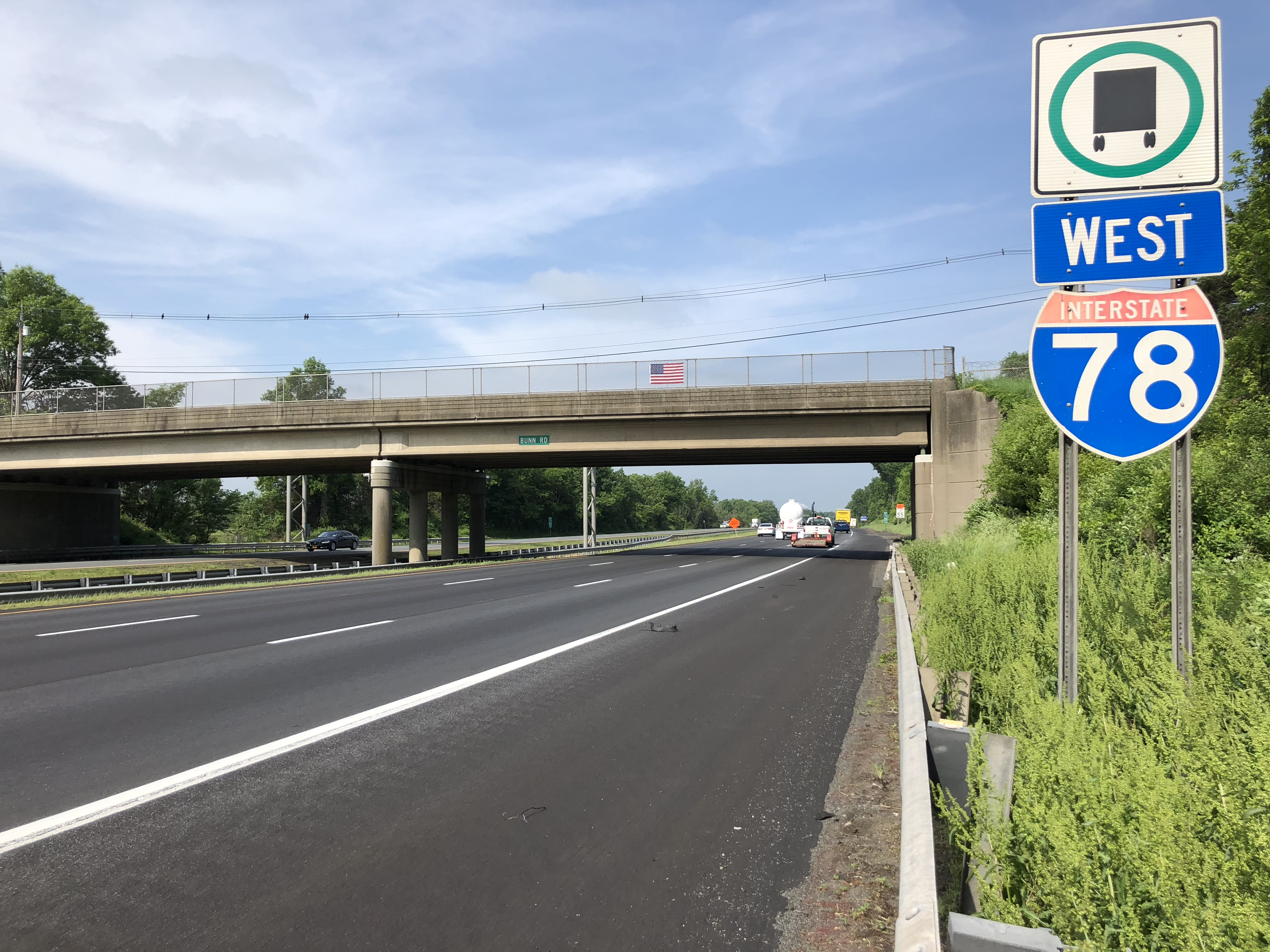 View west along Interstate 78 (Phillipsburg-Newark Expressway) between Exit 29 and Exit 26 in Bedminster Township, Somerset County, New Jersey